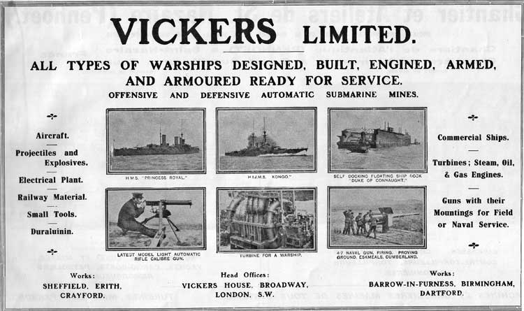 Vickers Ltd advertisement, presenting its comprehensive shipbuilding and armaments capabilities. Depicted are HMS Princess Royal and HIJMS Kongō.